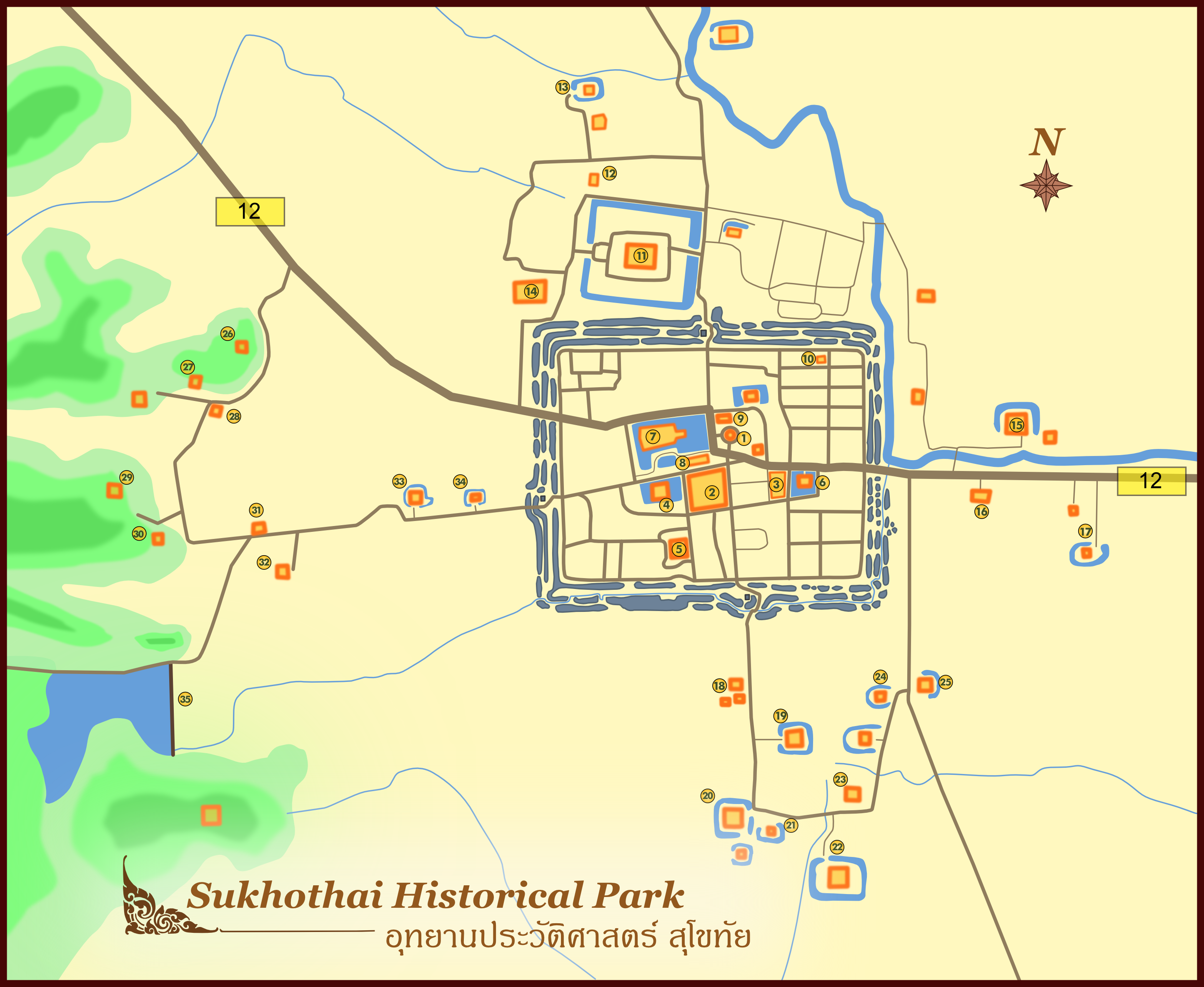 Map of Sukhothai Historical Park, Sukhothai Province, northern Thailand. King Ramkhamhaeng Monument Wat Mahāthāt Ramkhamhaeng National Museum Wat Traphang Ngoen Wat Sri Sawai (Wat Sri Svāya) Wat Traphang Thong Wat Sra Sri (Wat Sa Si) Wat Chana Songkhrām Wat Trakuan San Ta Pha Daeng (Ta Pha Daeng Shrine) Wat Phra Phai Luang Turiang Kilns Wat Sangkhawat (Wat Sanghāvāsa) Wat Si Chum Wat Chang Lom Wat Thraphang Thong Lang Wat Chedi Sung Wat Kon Laeng Wat Ton Chan Wat Chetuphon Wat Chedi Si Hong Wat Si Phichit Kirati Kanlayaram (Sri Vicitrakirtikanlyārāma) Wat Wihan Thong, Wat Asokaram Wat Mum Langka Wat Saphan Hin Wat Aranyik (Wat Arannika) Wat Chang Rop Wat Chedi Ngam Wat Tham Hip Wat Mangkon Wat Phra Yuen Wat Pa Mamuang Wat Thuek Phra Ruang Dam